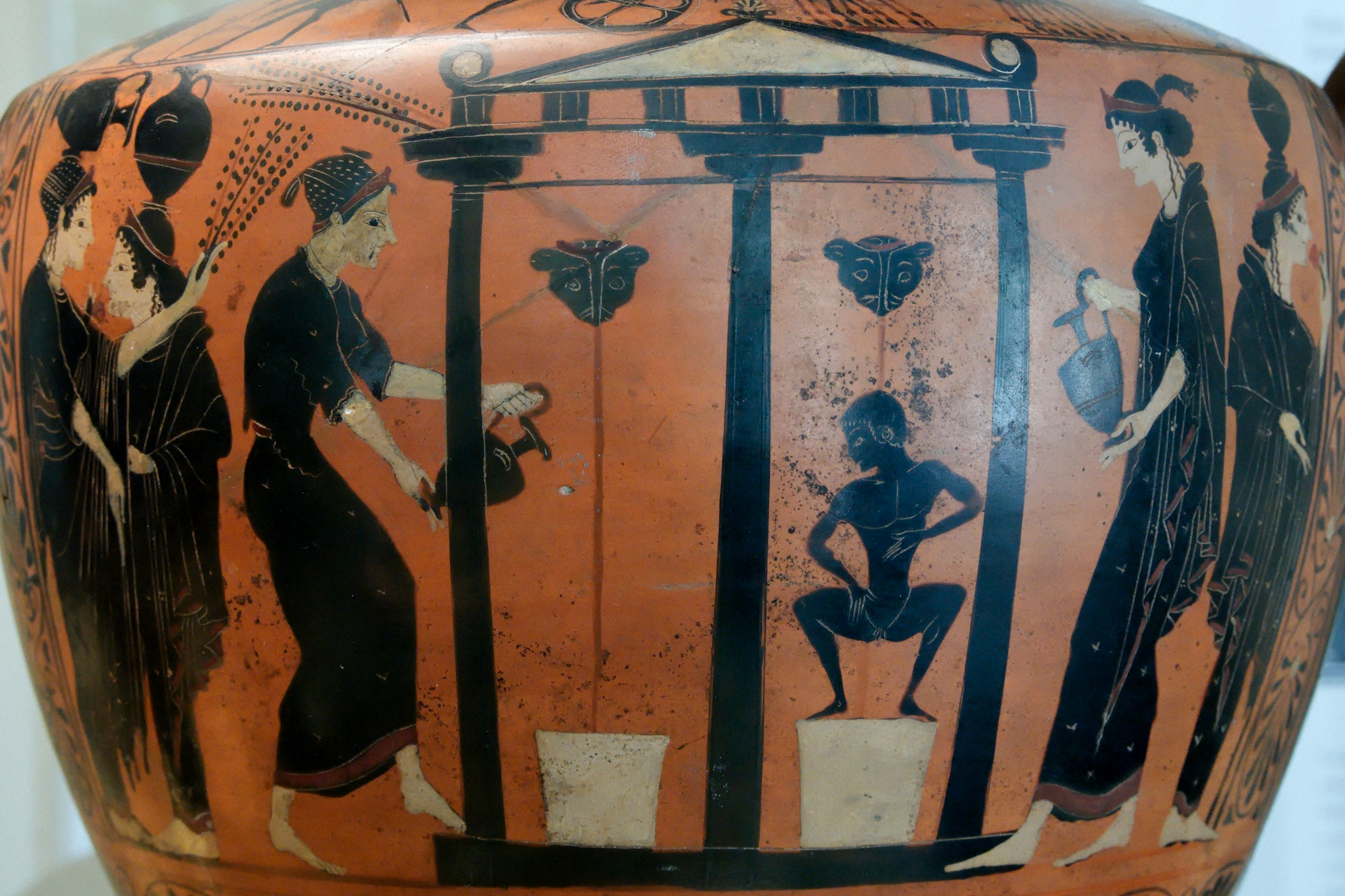 Women fetching water from a fountain house; a boy bathing naked under the water stream. Side A from an Attic black-figure hydria, ca. 520 BC. Probably it's a reduced representation of the Enneakrounos ("Nine-Jets Fountain House"), built by Peisistratos in Athens.